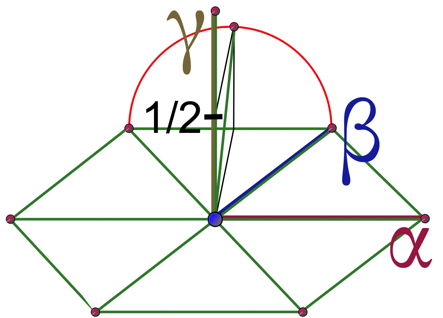 Hexagonal crystal structure (detail for mathematical proof).